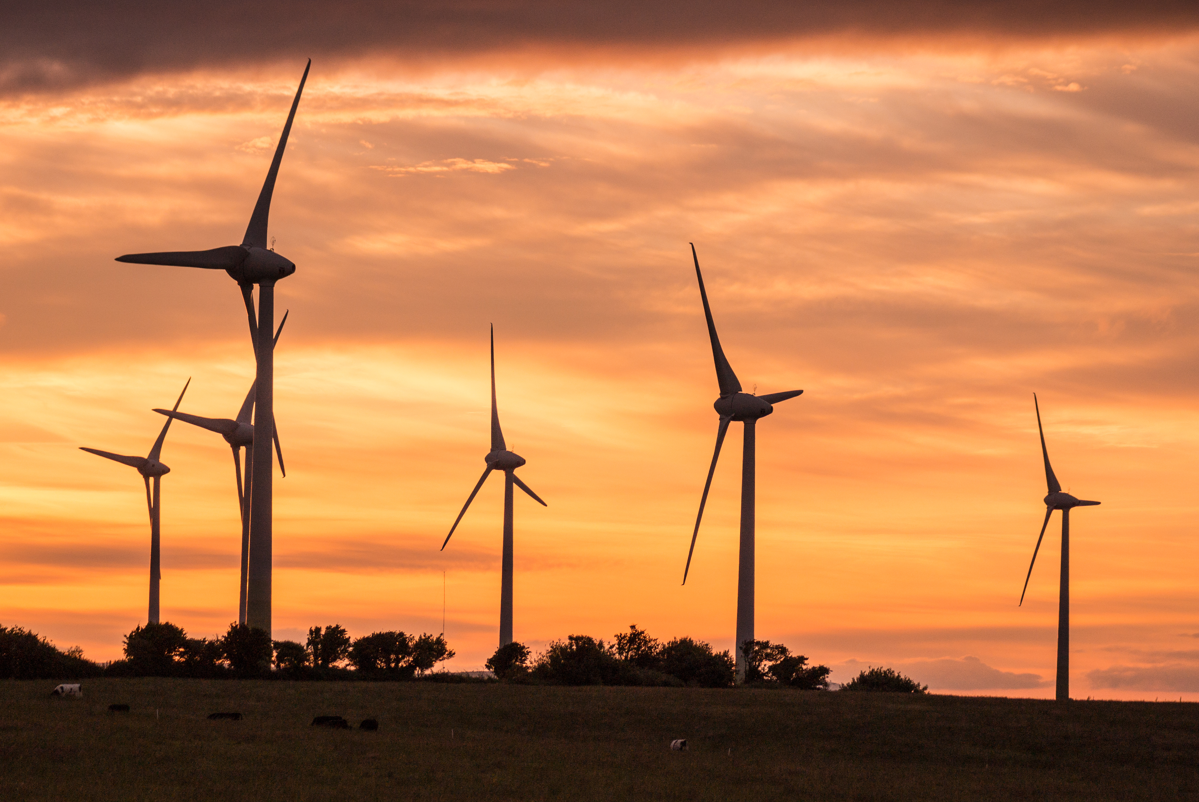 Ballinoulart windfarm at sunset